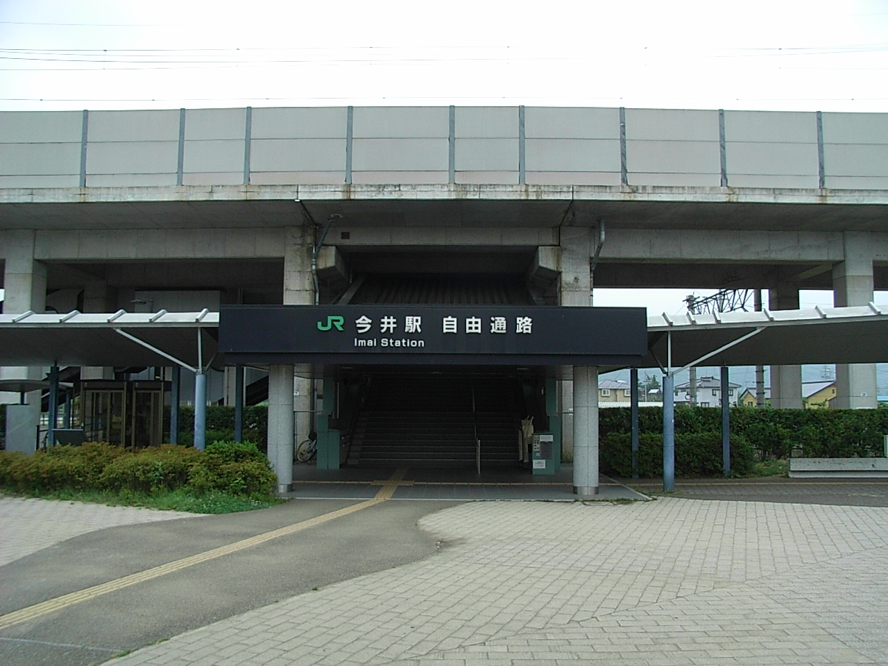 Imai Station(East Entrance) on JR Shin-etsu Line. (296-2,Kawanakajimamachi-Imai,Nagano-shi,Nagano-ken,JAPAN)